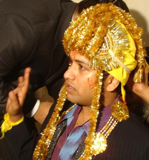 A Sehra is a headdress worn by the groom during the Indian weddings.